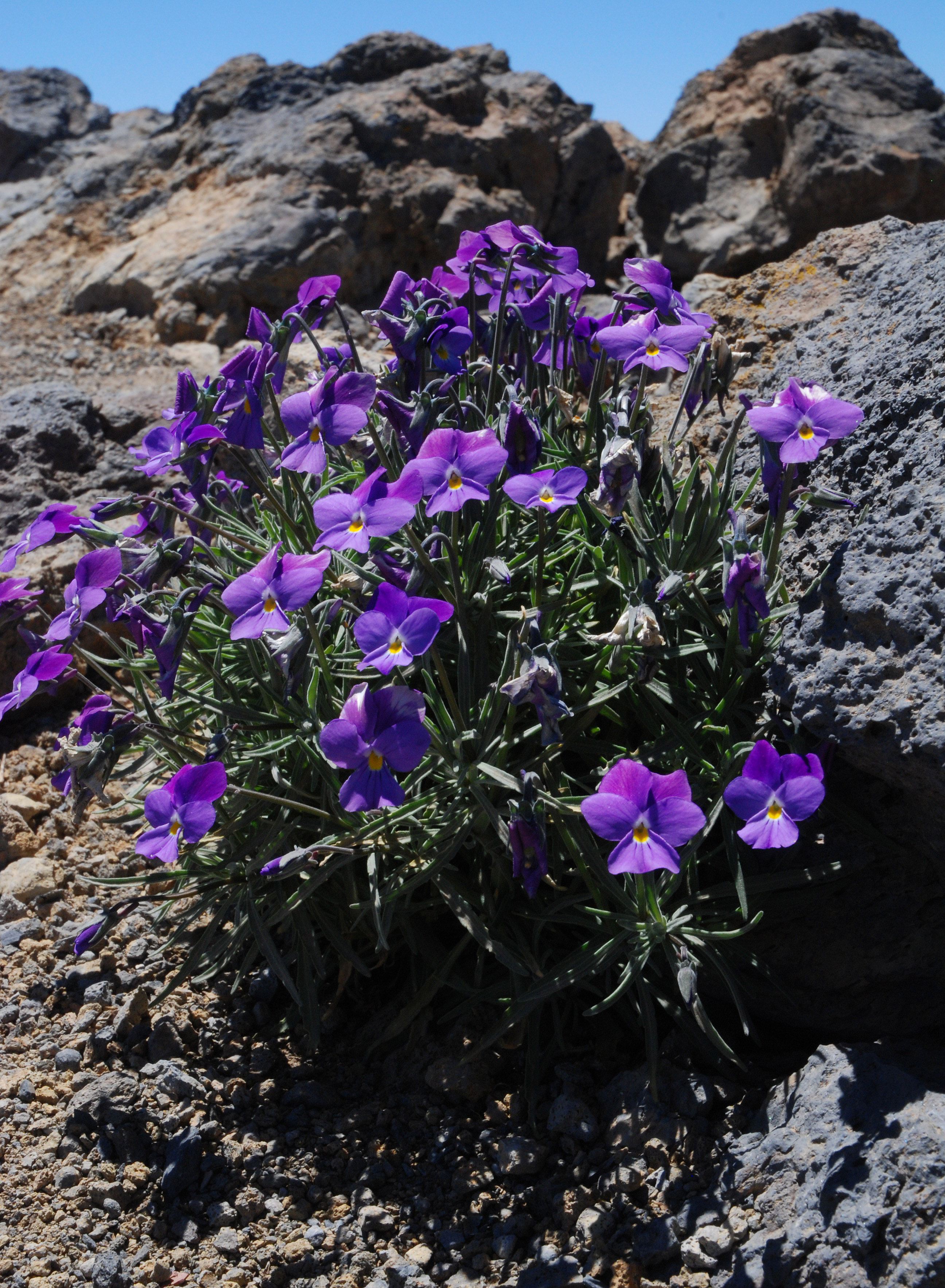 Viola palmensis Near Fuente Nueva, La Palma, Spain